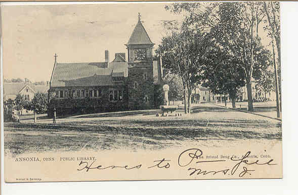 Postcard: Public Library, Ansonia, Connecticut, 1906 postmark Description: Note that the caption on the postcard says "Public Library" and only the store Web page says "Free Library". Black and white photograph, store Web page states, "1906 postally used Raphael Tuck & Sons, Series No. 2159, showing the Free Library in Ansonia, CT."